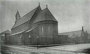 Pre 1914 postcard of the former St Silas Church, Goodman Street, Hunslet, Leeds, West Yorkshire, England. Designed by George Corson, and consecrated in 1869. It was closed in 1952, and later demolished.